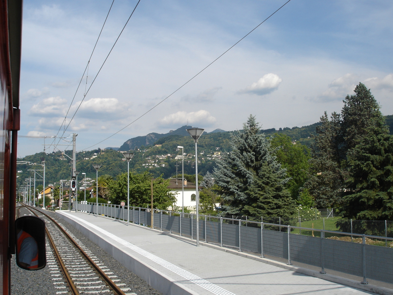 Magliaso train station.